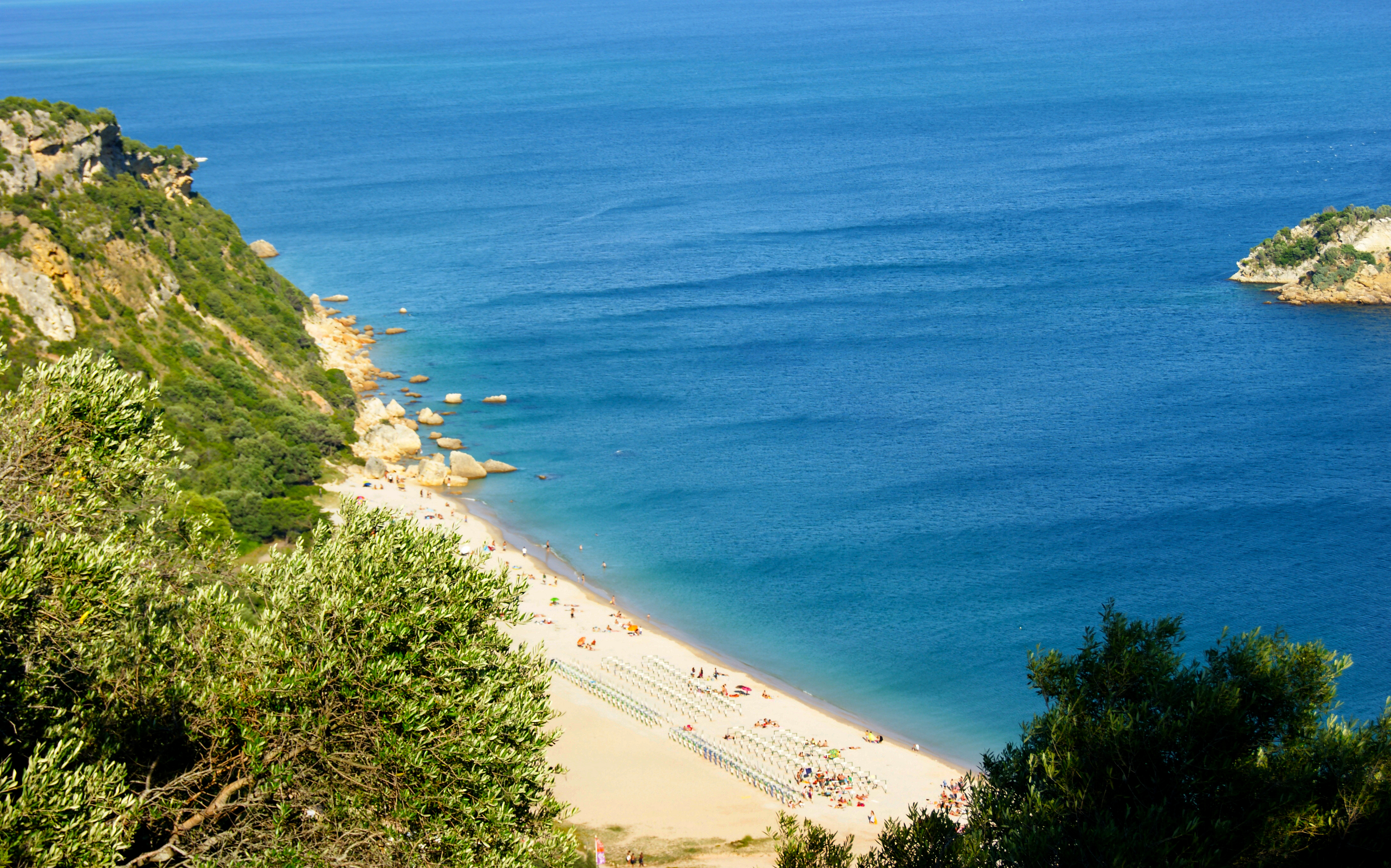 Pälzisch: Parque Natural da Arrábida com vista para a praia da Figueirinha This is a photography of a Site of Community Importance in Portugal with the ID: PTCON0010. Natura2000 entry, EEA entry